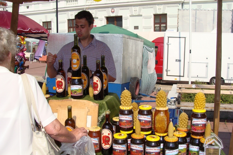 Icon Trade Fair of Sanok